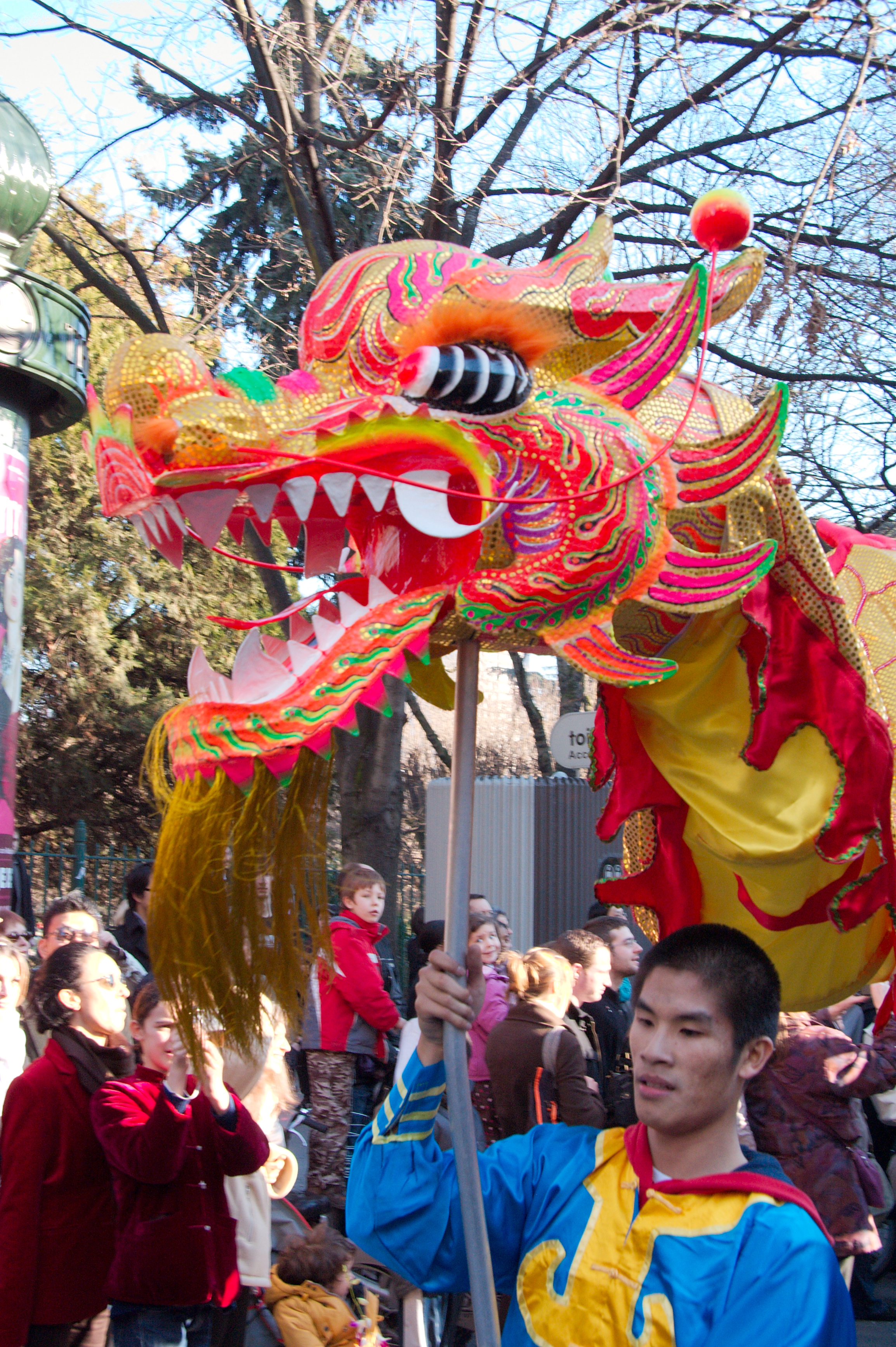 Chinese New Year, which took place in the 13th arrondissement of Paris (France).